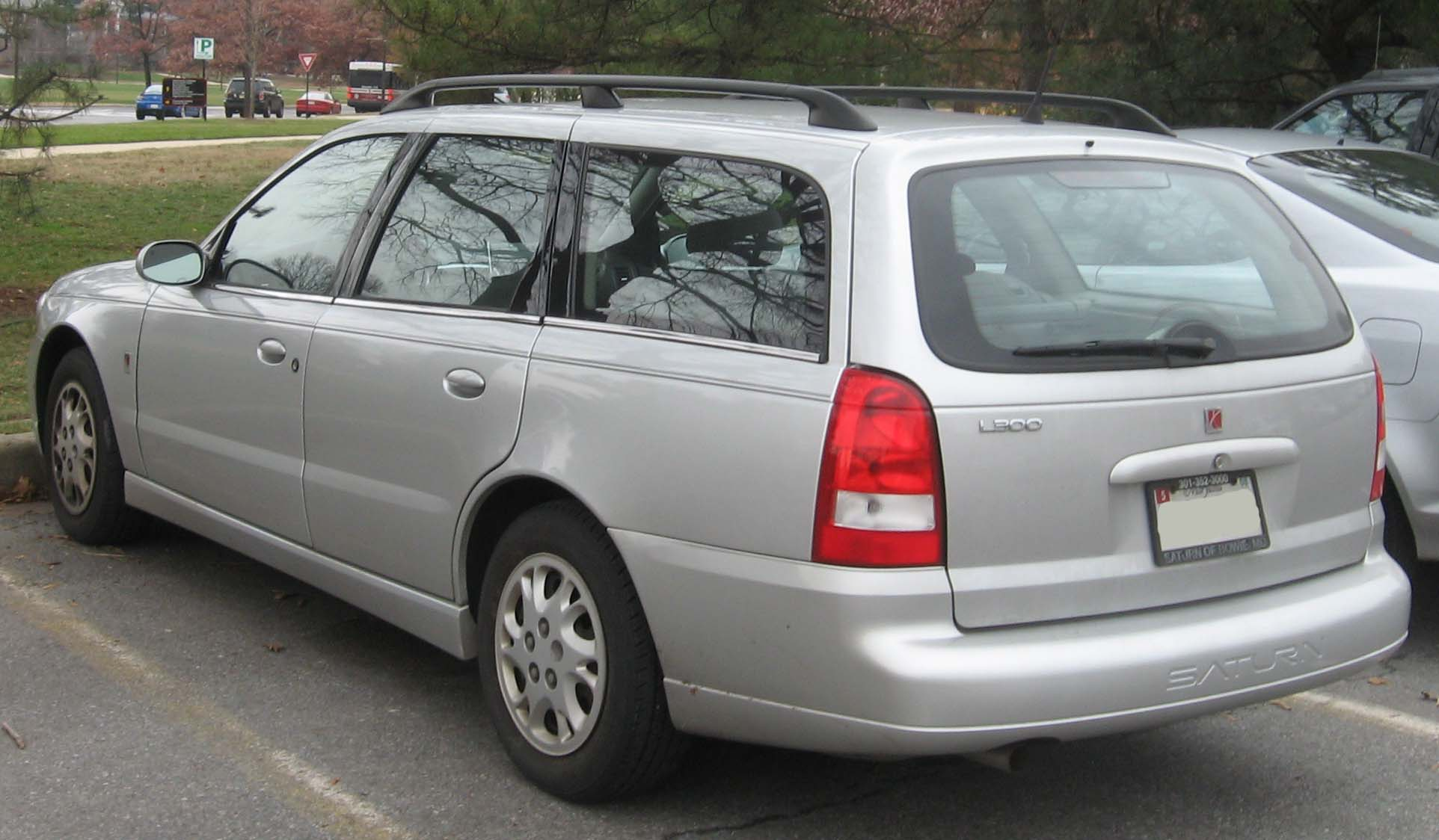 2003-2004 Saturn L300 photographed in College Park, Maryland, USA.